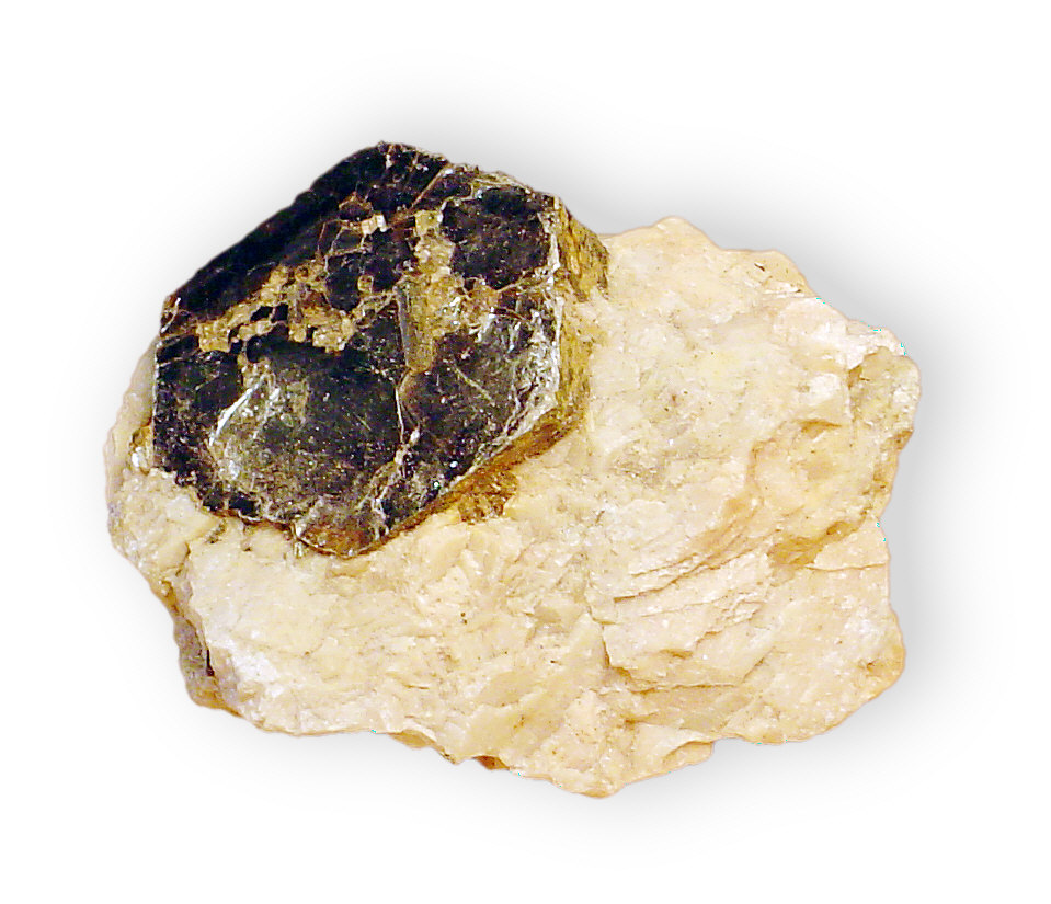 These mineral images are free to use how you wish.